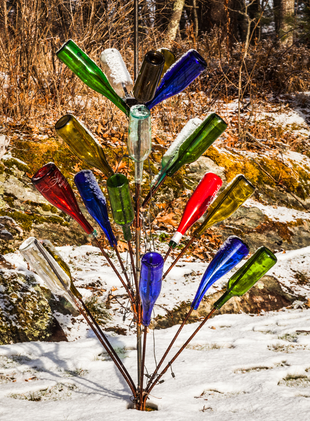 Seen along Pleasant Point Road that follows the Androscoggin River in Topsham, Maine. A bit of snow had been falling just before the sun came out here.